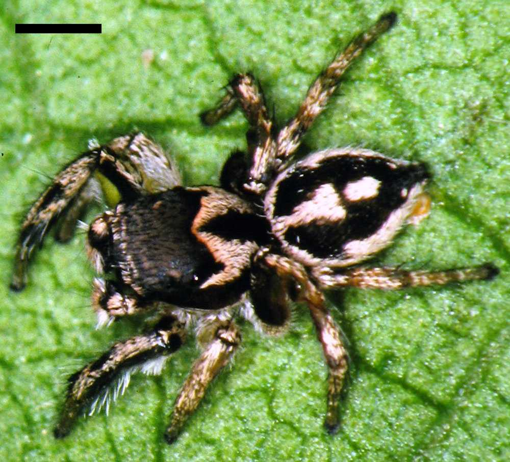 Male Habronattus calcaratus jumping spider from Ocala National Forest, Florida, USA